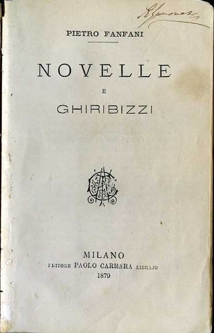 front page